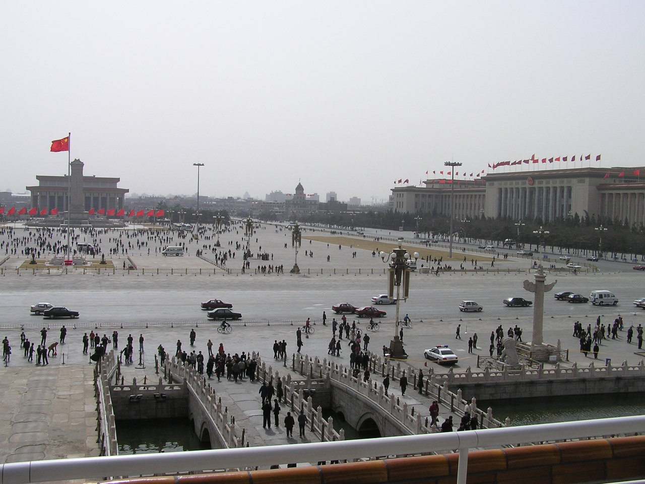 Overview of the Tiananmen Square.